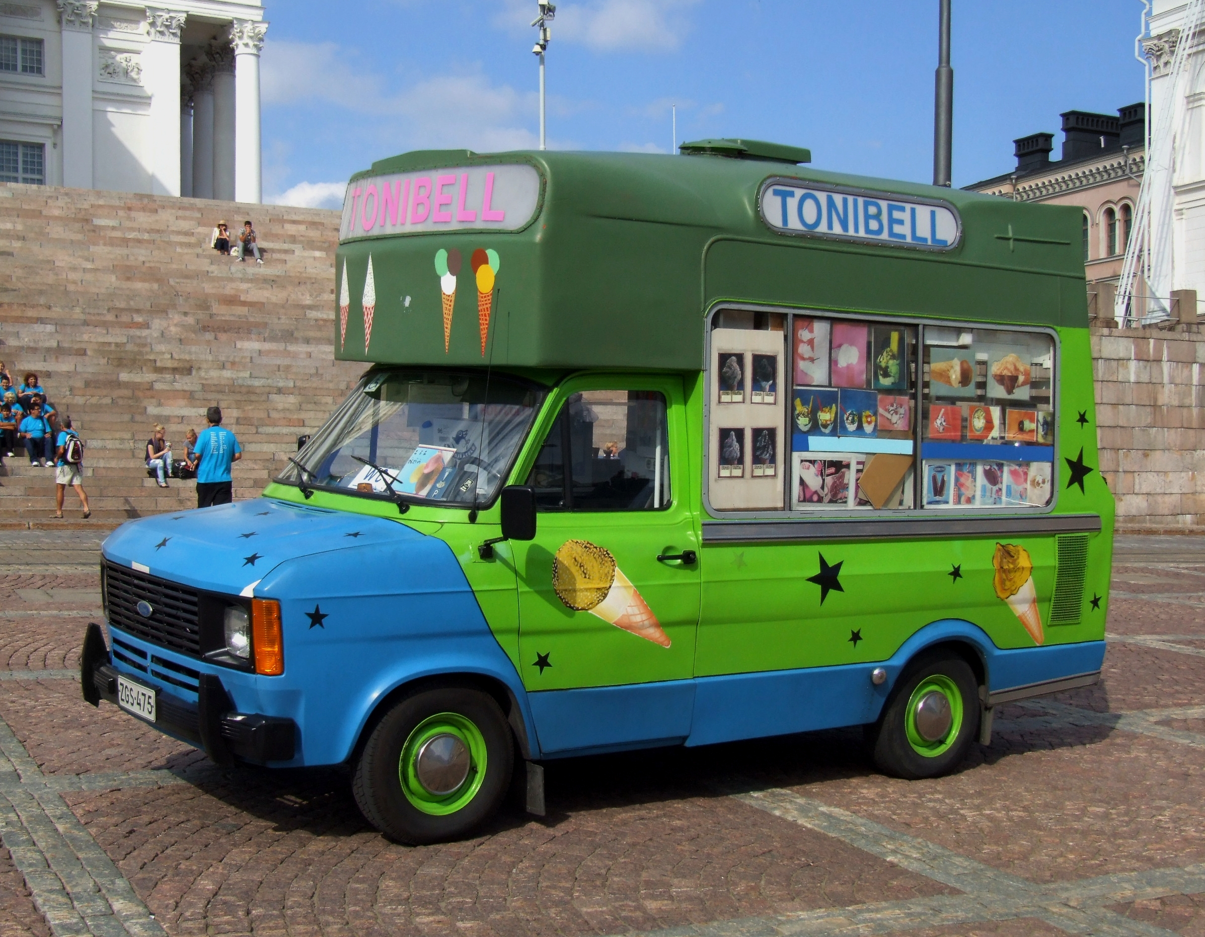 Ice cream van, Senat Square (Senaatintori), Helsinki (Helsingfors)